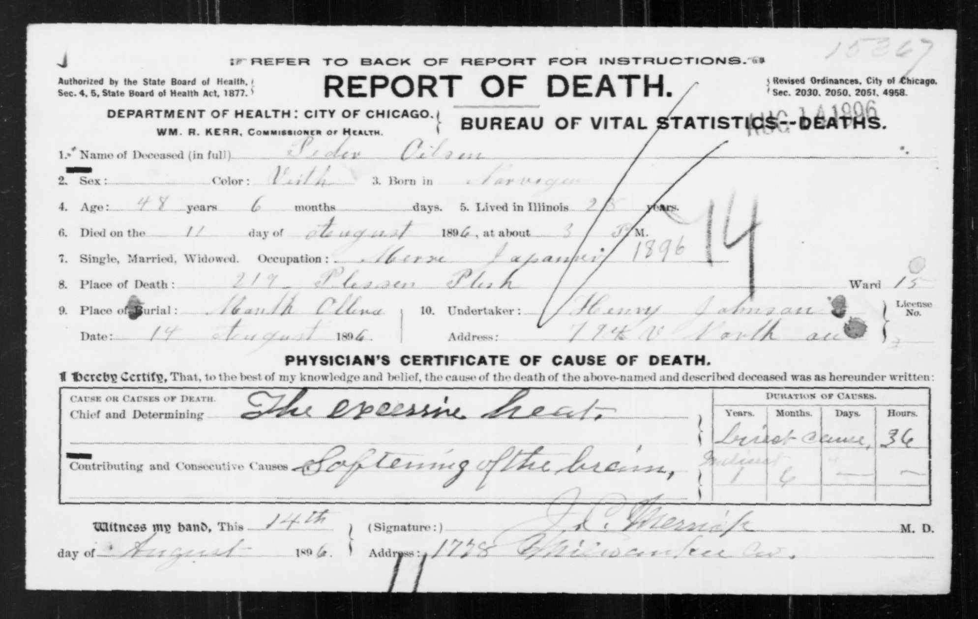 Peder Matthias Olsen (1849-1896) death certificate 1896 Eastern North America heat wave